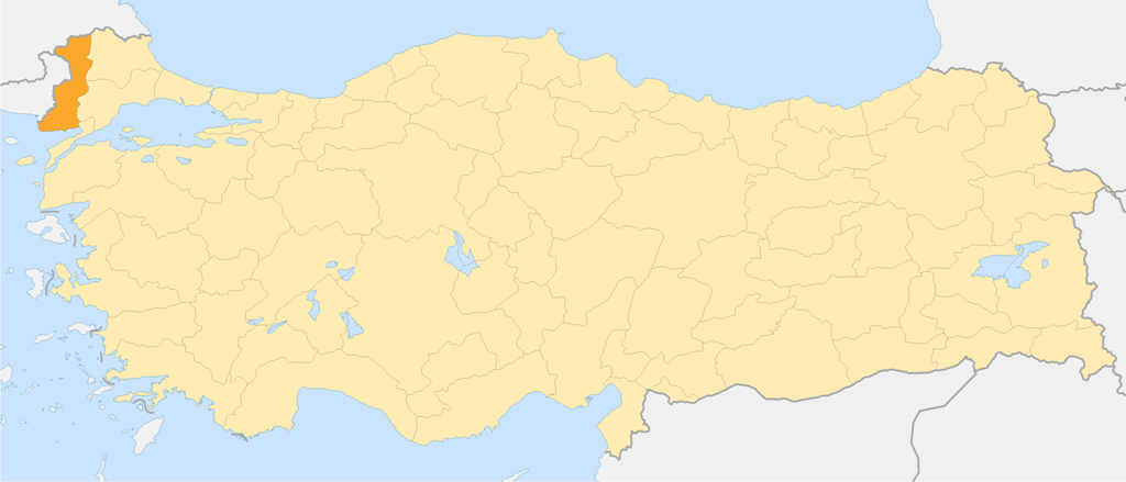 Shows the location of the province Edirne in Turkey